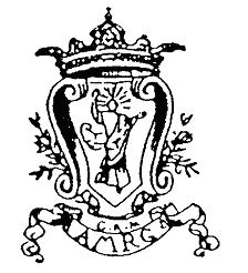 Emblem or seal of Minor Regular Clerics or Adorno Fathers, from a printer mark of ca. 1650